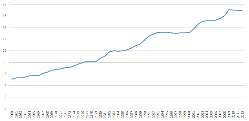 Total U.S. healthcare spending. 1960 to 2012. Percent of GDP (gross domestic product). Data is from OECD Health spending Total, % of GDP, 1970 – 2013.